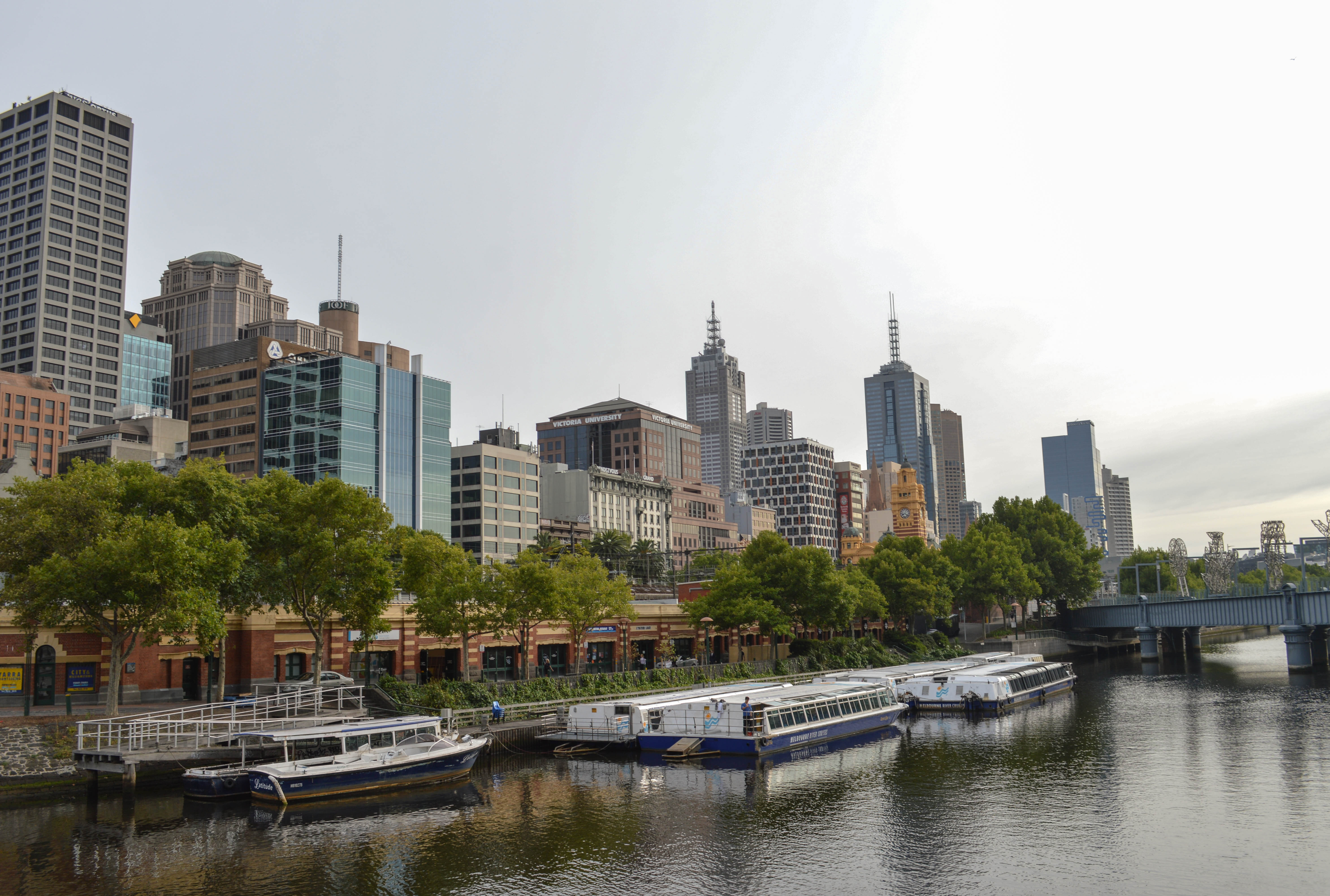 Yarra River